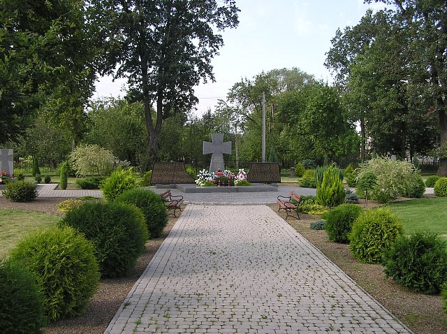 The monument conmemorating the Ukrainian civilians murdered on 3 March 1945 in Pawłokoma by local Polish self-defence units and an Armia Krajowa detachment